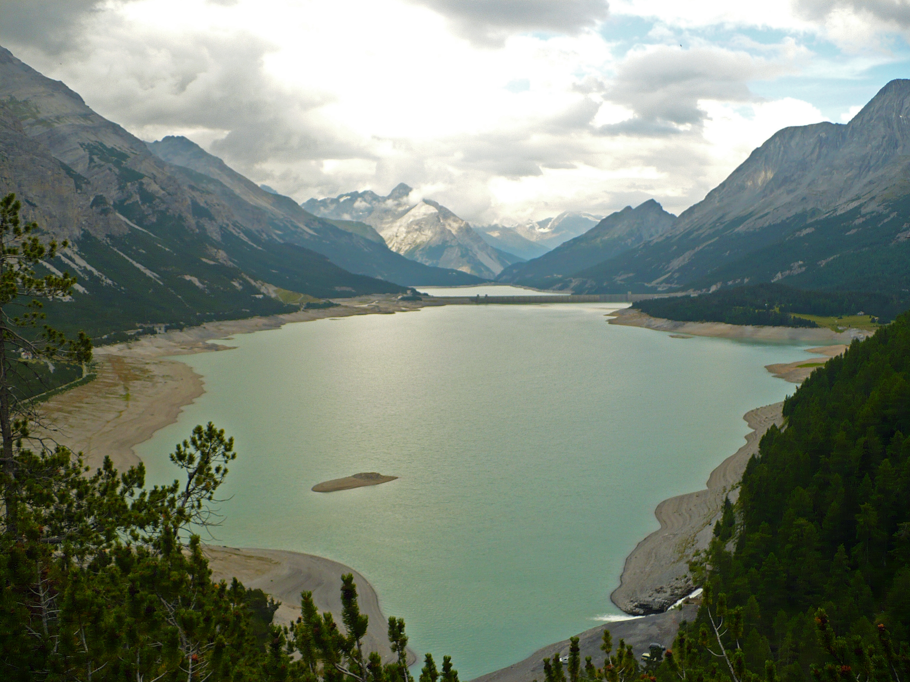 San Giacomo and Fraele lakes seen from Passo Alpisella trail